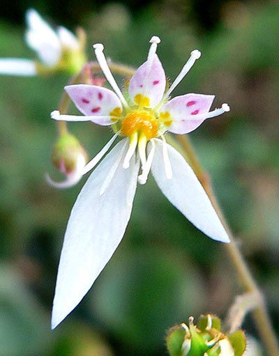 Photo of Saxifraga stolonifera 'Harvest Moon' at VanDusen Botanical Garden